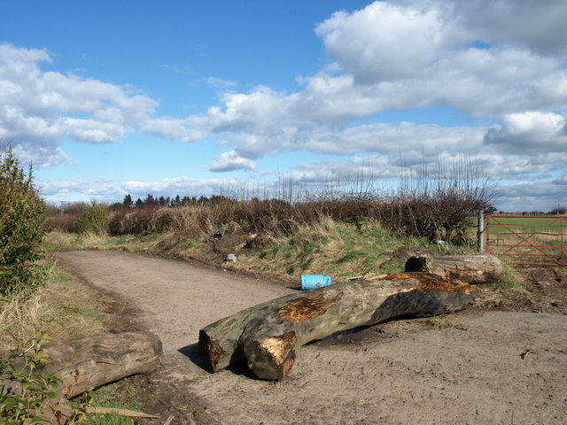 Road Block, Ardeer Tree trunk denies vehicular access.